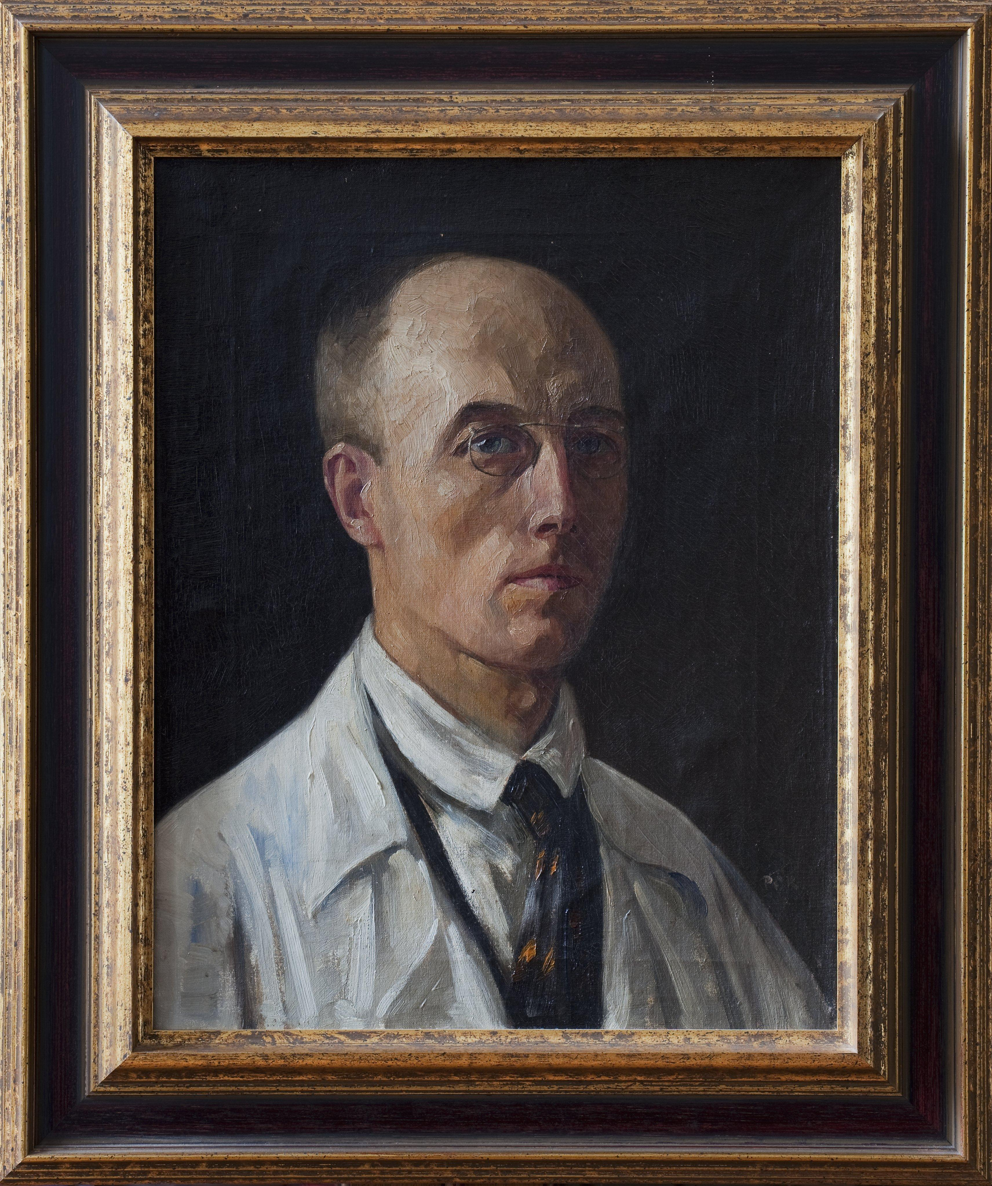 Jacob Por Self-portrait